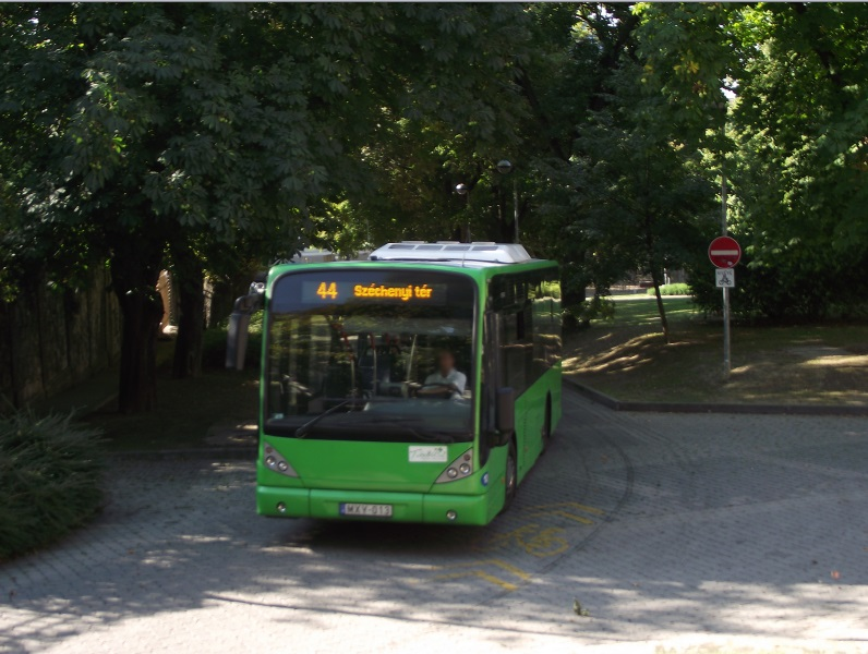 Van Hool A308 bus, bus line 44, at Pécs Káptalan Street (reg. MXY-013)